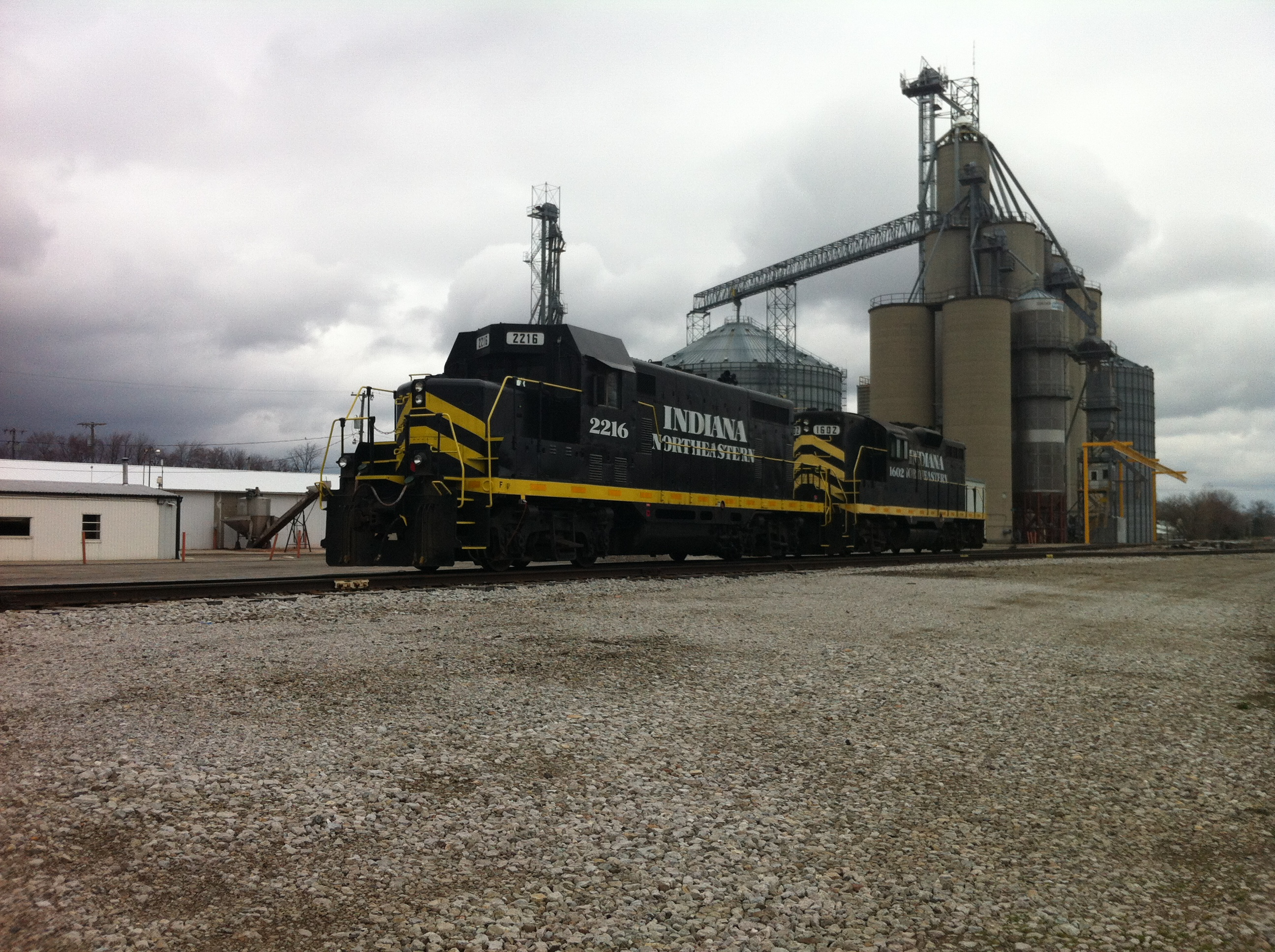 Indiana Northeastern GP7u 2216 and GP7 1602 sit at the Edon Farmers CO-OP in Edon, OH in April 2013.